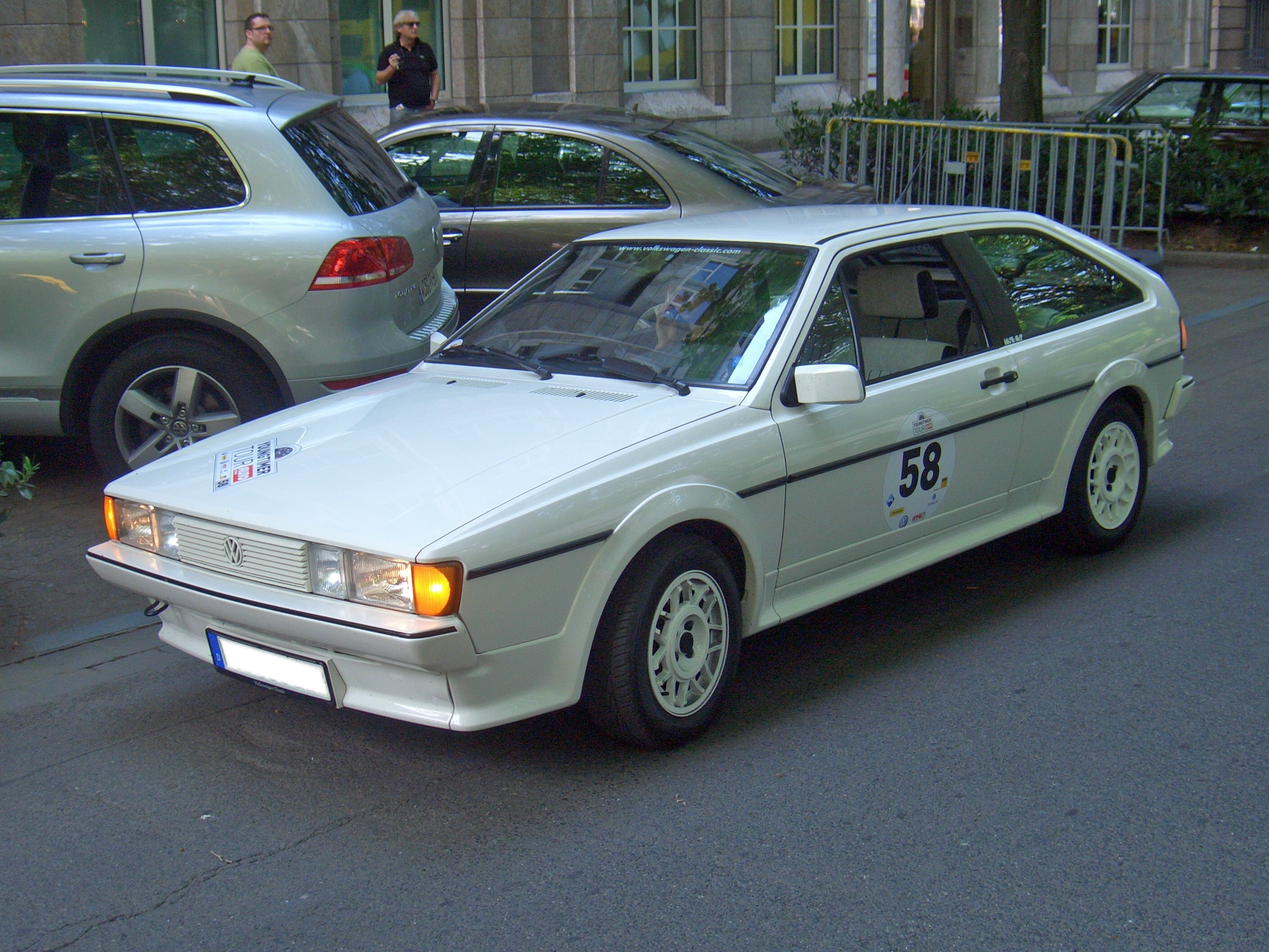 VW Scirocco II,. special edition WHITE CAT (1985), seen at AUTO ZEITUNG Youngtimer Tour 2011, finish at Königsallee, Düsseldorf